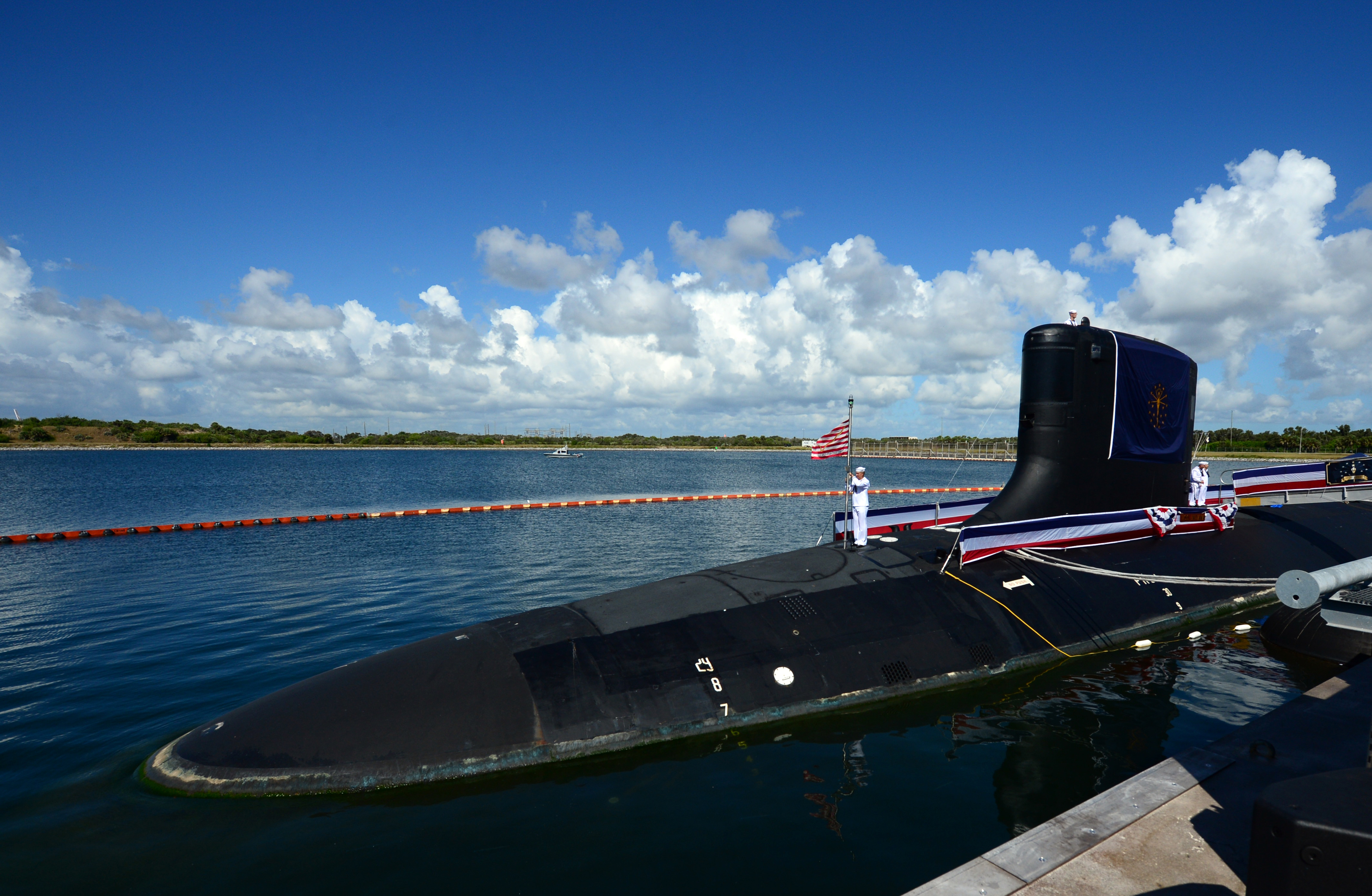 180929-N-SU448-0062 PORT CANAVERAL, Fla. (Sept. 29, 2018) The First Navy Jack is raised during the commissioning ceremony of the Virginia-class fast-attack submarine USS Indiana (SSN 789). Indiana is the U.S. Navy's 16th Virginia-class fast-attack submarine and the third ship named for the state of Indiana. (U.S. Navy photo by Senior Chief Mass Communication Specialist Leah Stiles/Released)